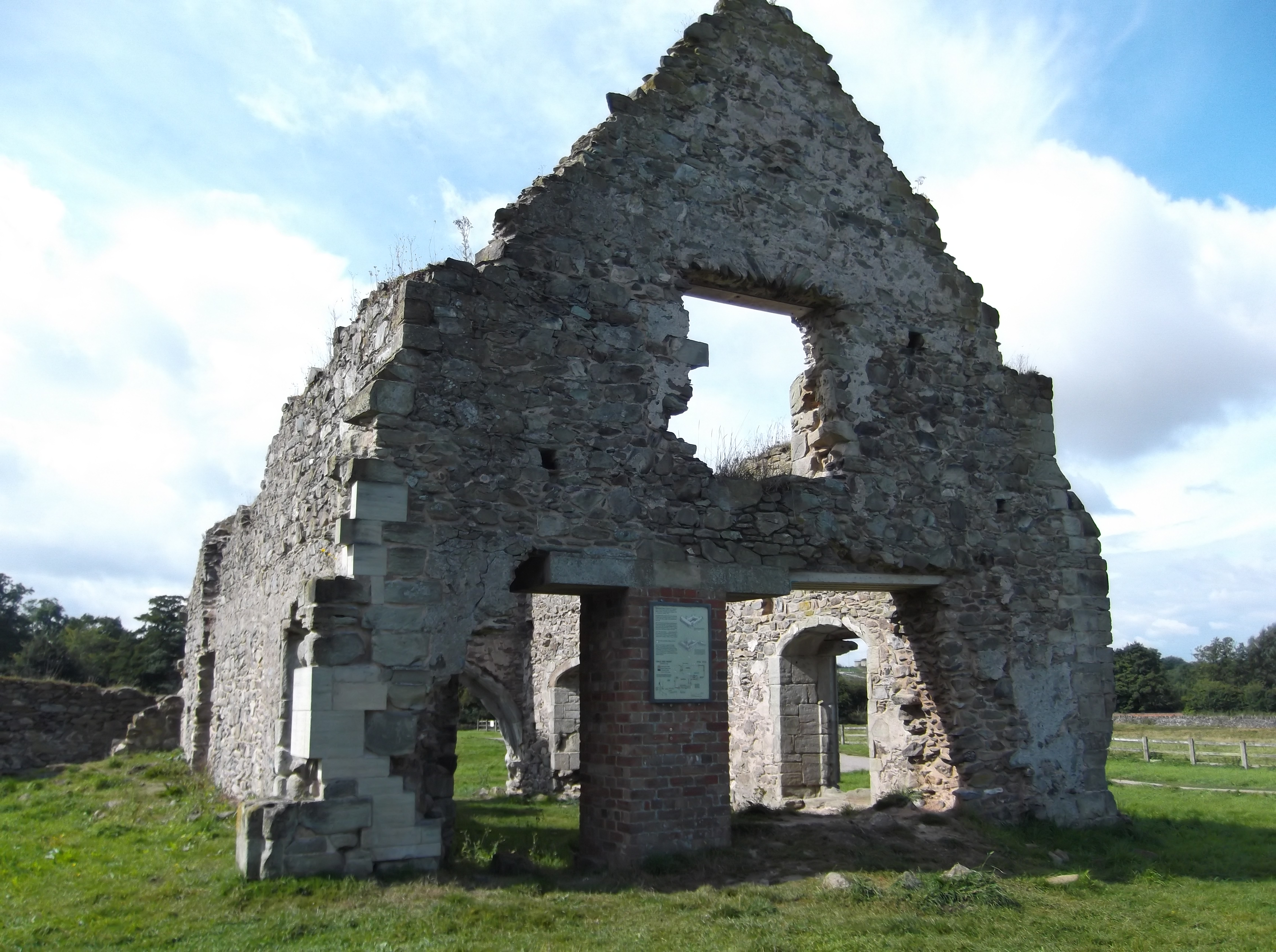 Photograph of the remains of the chapter house of Grace Dieu Priory, Leicestershire, England